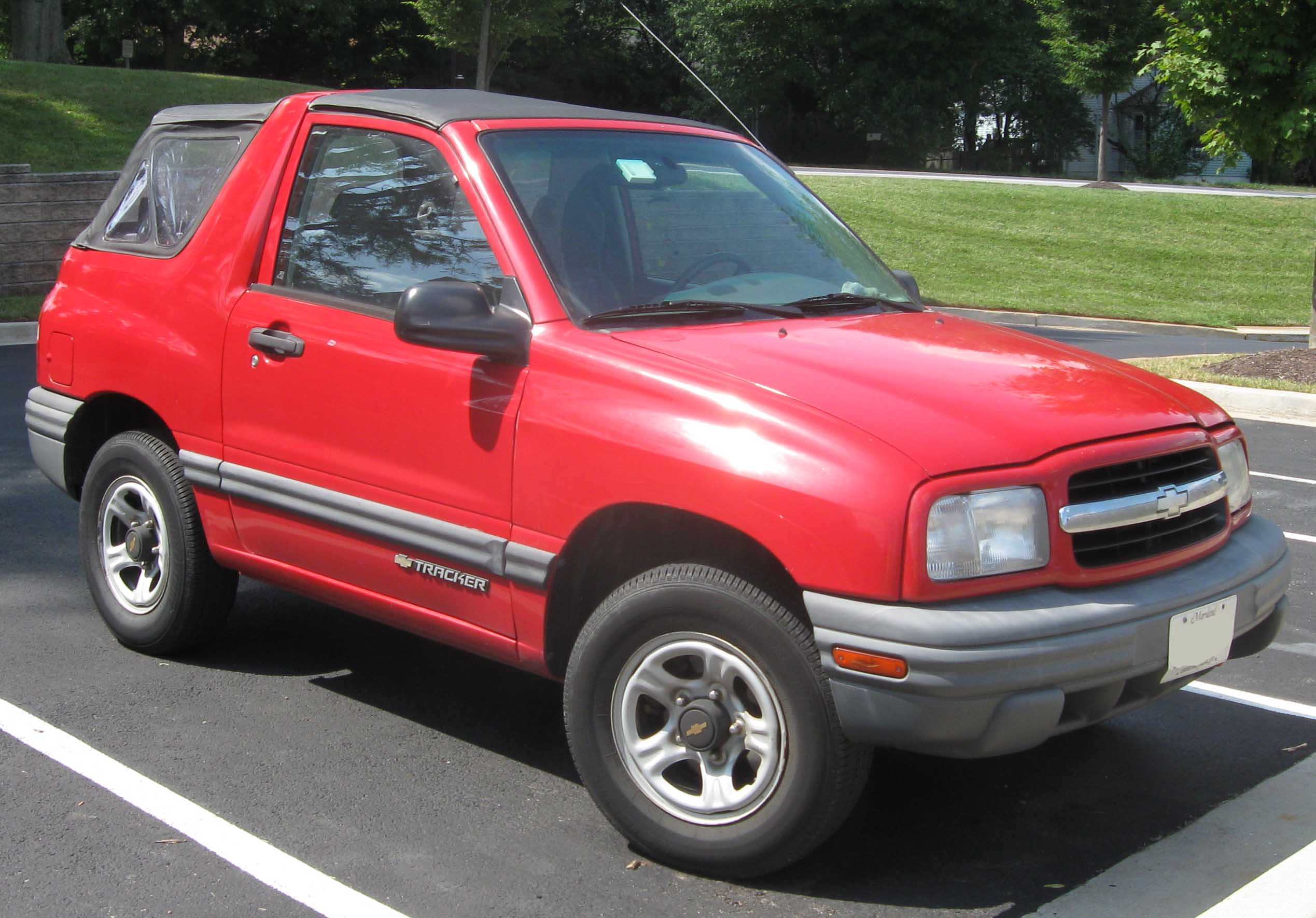 Chevrolet Tracker photographed in Kensington, Maryland